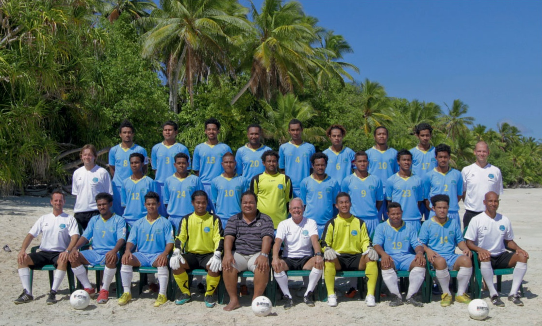 Team Picture